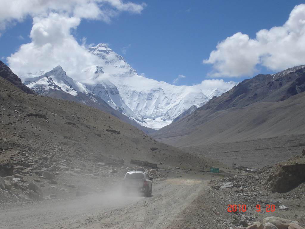 approaching Mount Everest Base Camp after leaving Friendship Highway with the summit of Changtse showing below the summit of Everest